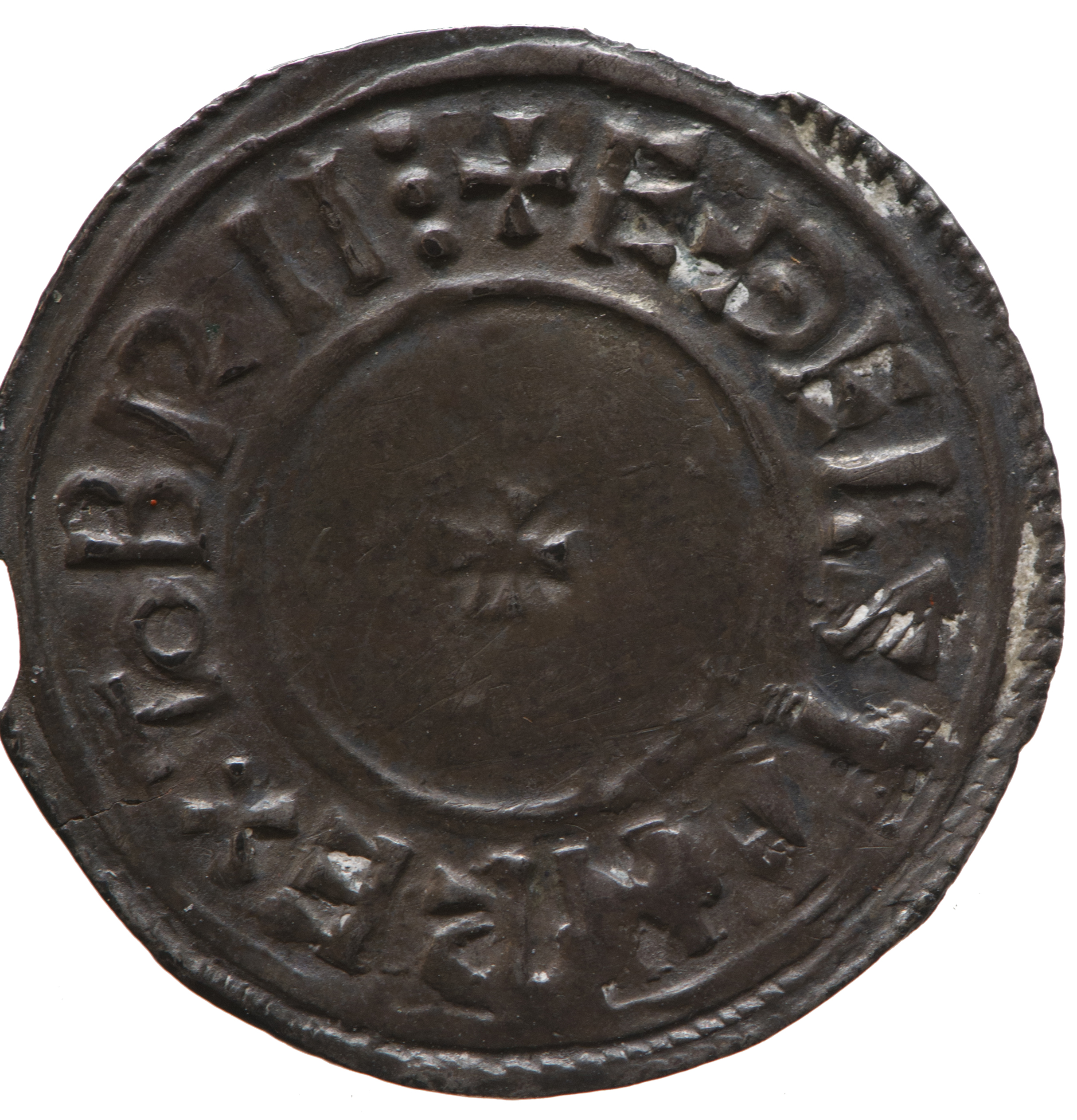 Obverse (front) of a silver penny of Æthelstan Circumscription small cross